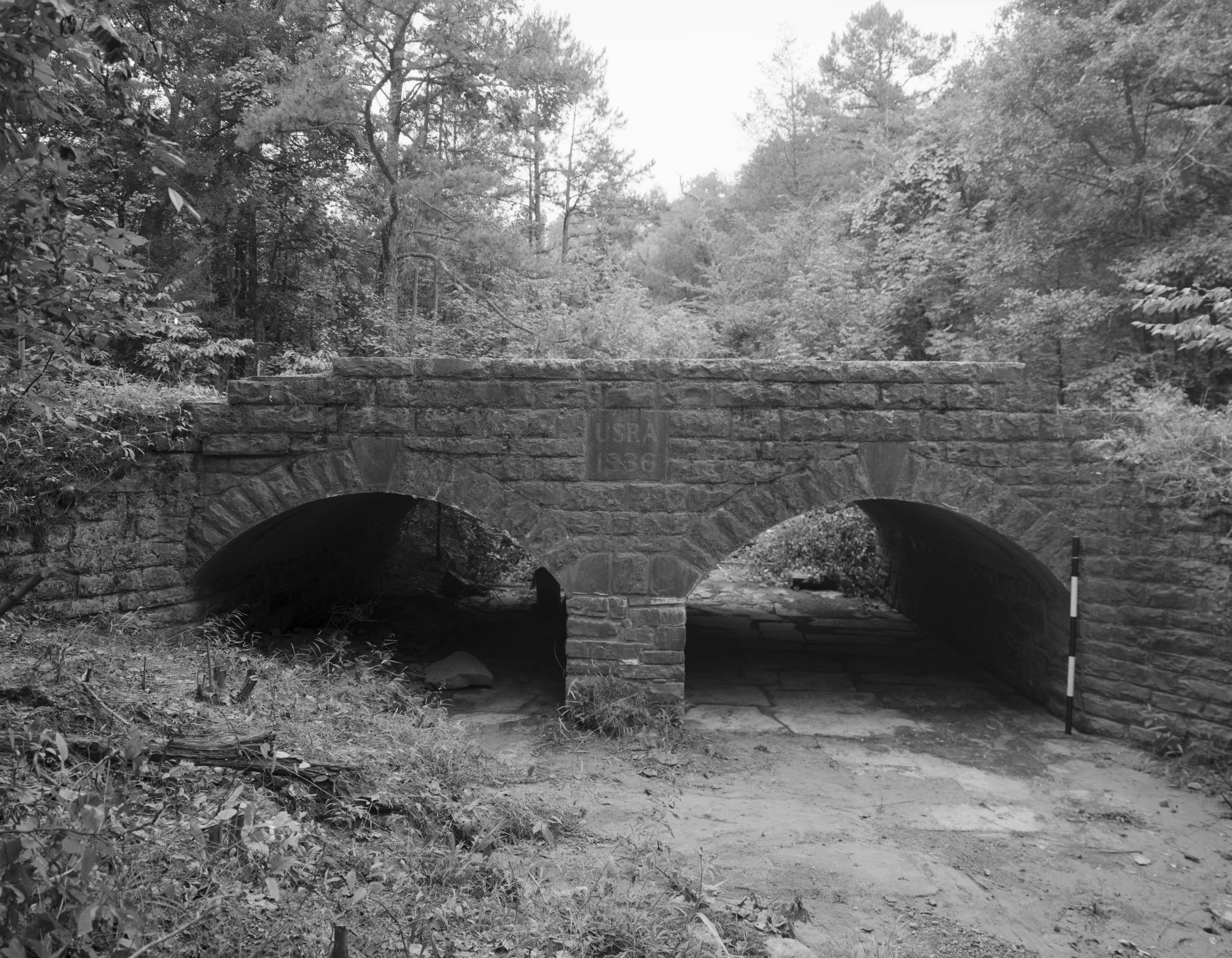 Eastern side of the Spring Lake Bridge, which carries Highway 307 over the Bob Barnes Branch near Belleville in Yell County, Arkansas, United States. Built in 1936, this closed spandrel stone deck arch bridge is listed on the National Register of Historic Places.